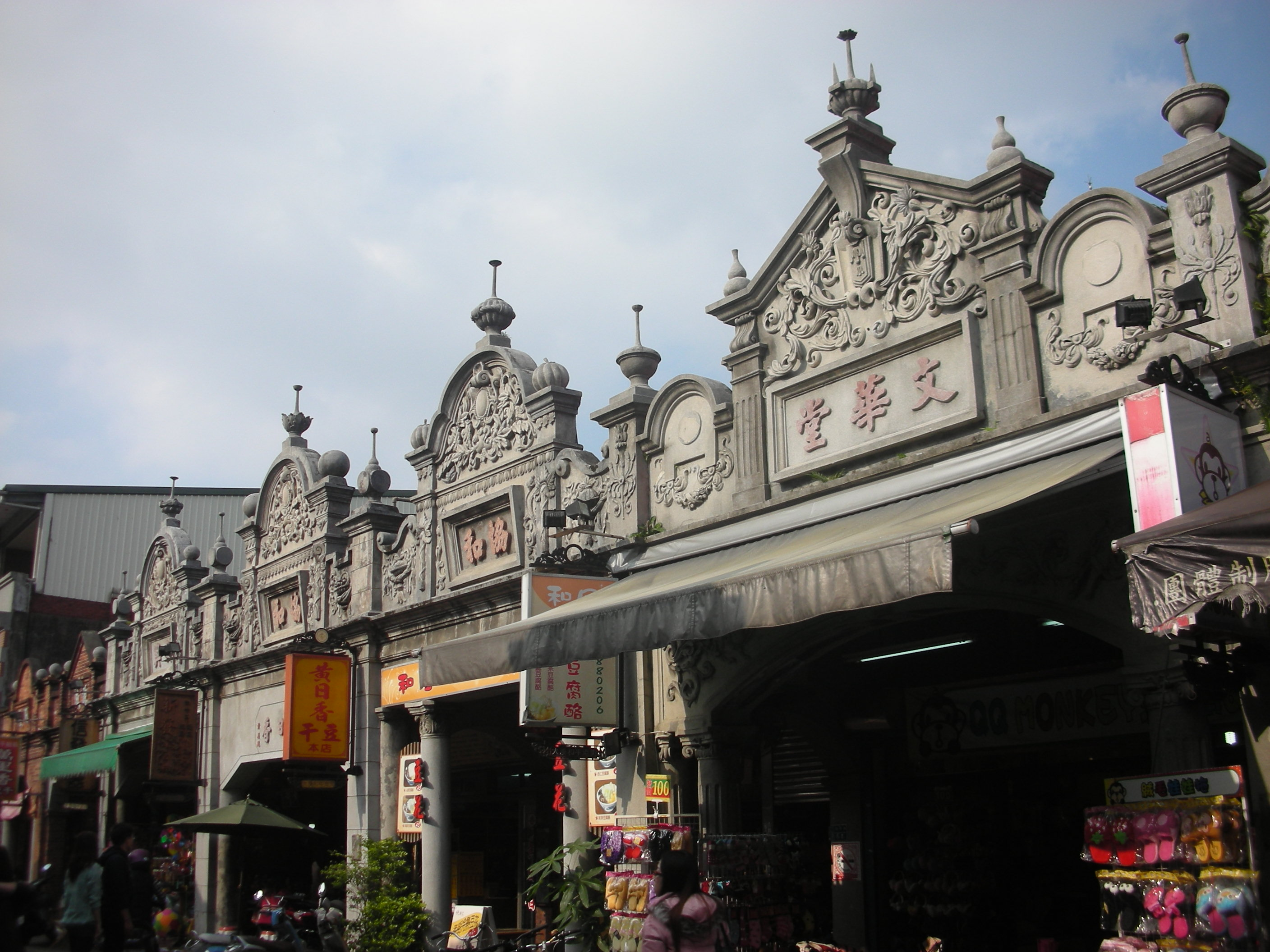 大溪 和平路老街 Daxi Old Street